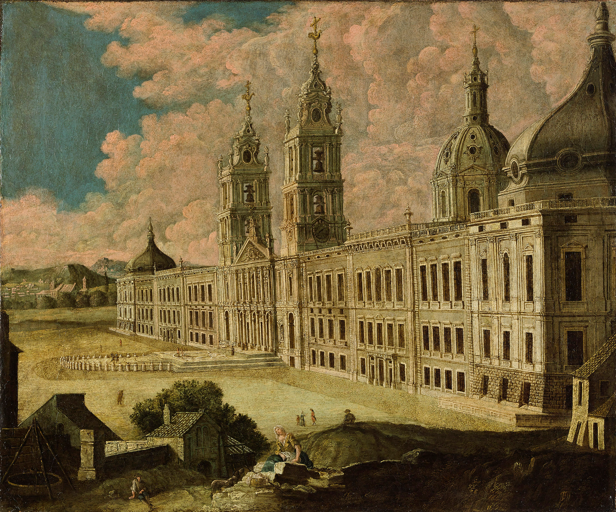 The Mafra Convent, before 1755.